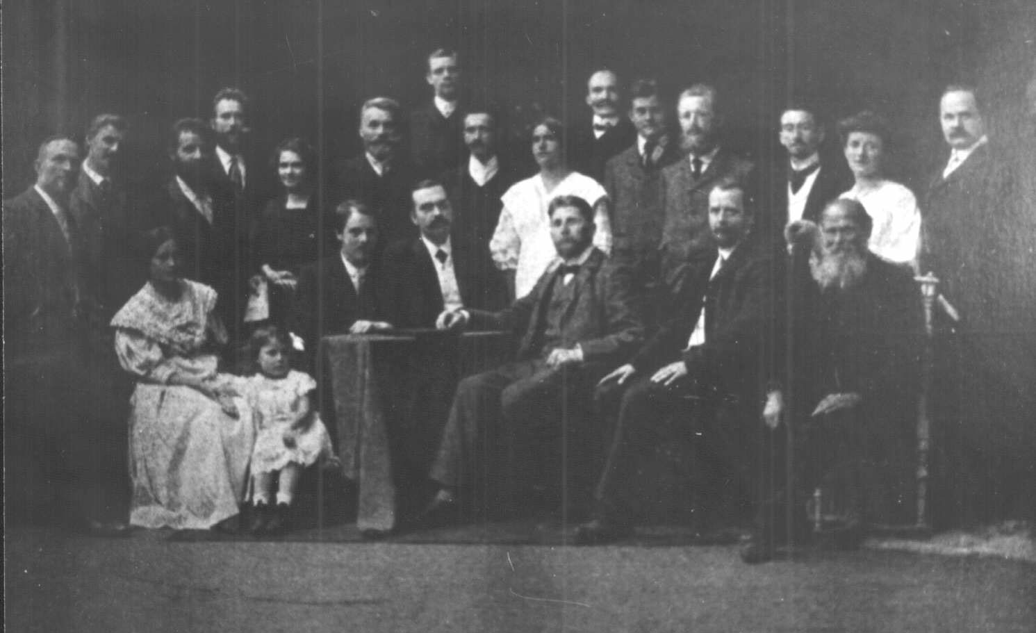 Photo of the participants of the 1st World Vegetarian Congress in 1908. Taken by the Vegetarian Press.